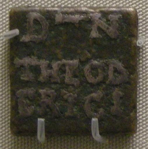 Bronze coin, inlaid with silver, issued in the name of Theodoric the Great by Catilinus, urban prefect of Rome.